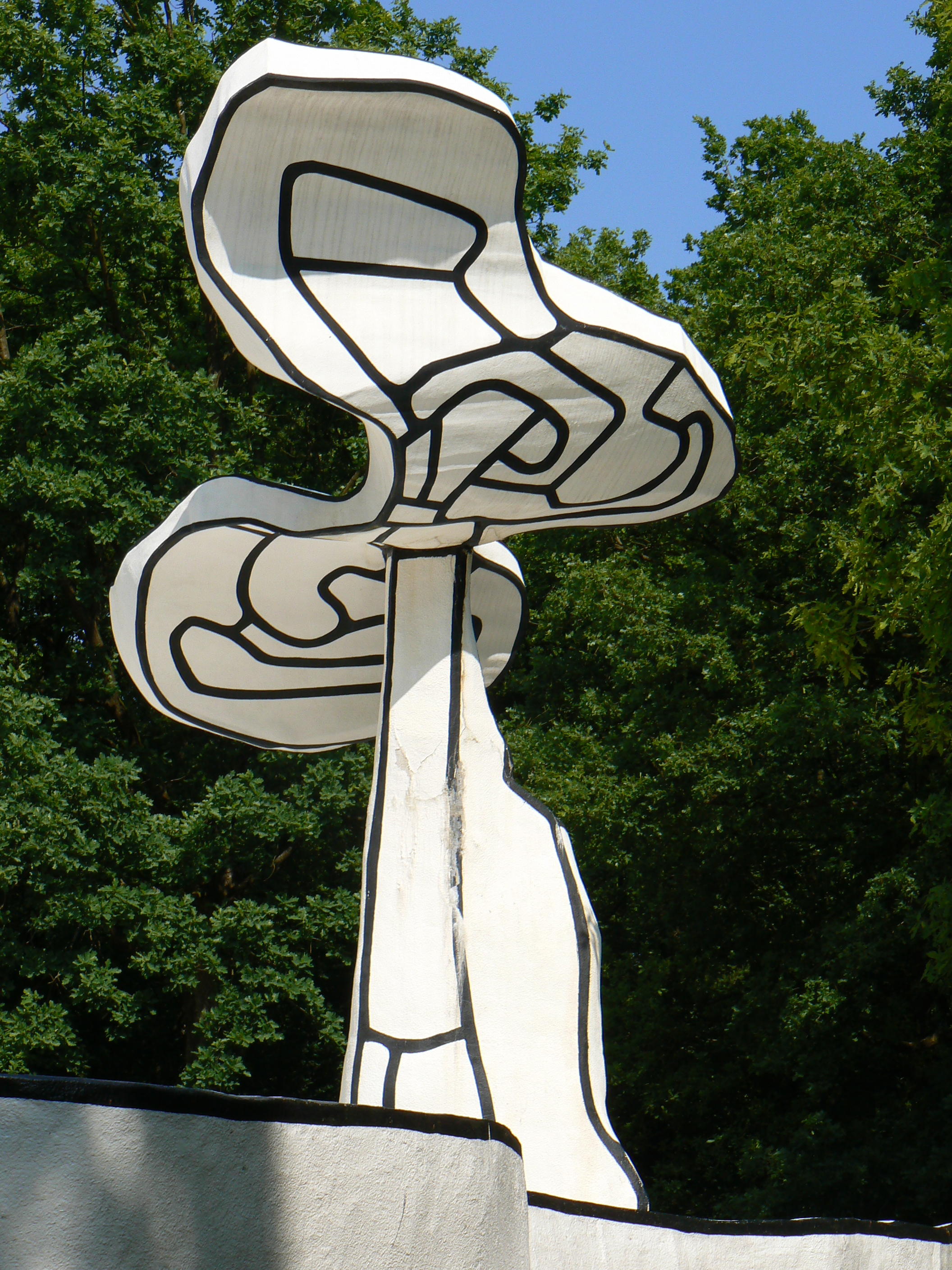 sculpture Jardin d'Email by Jean Dubuffet in KMM Sculpturepark/The Netherlands sculpture Jardin d'Email by Jean Dubuffet in KMM Sculpturepark/The Netherlands